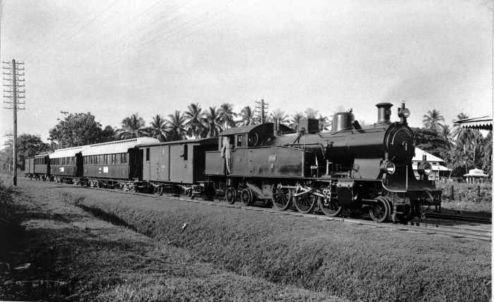 Locomotive of the Deli Railway Company in Medan with a train of railway carriages, East-Sumatra.